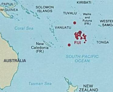 Map of Fiji showing the location in Oceania